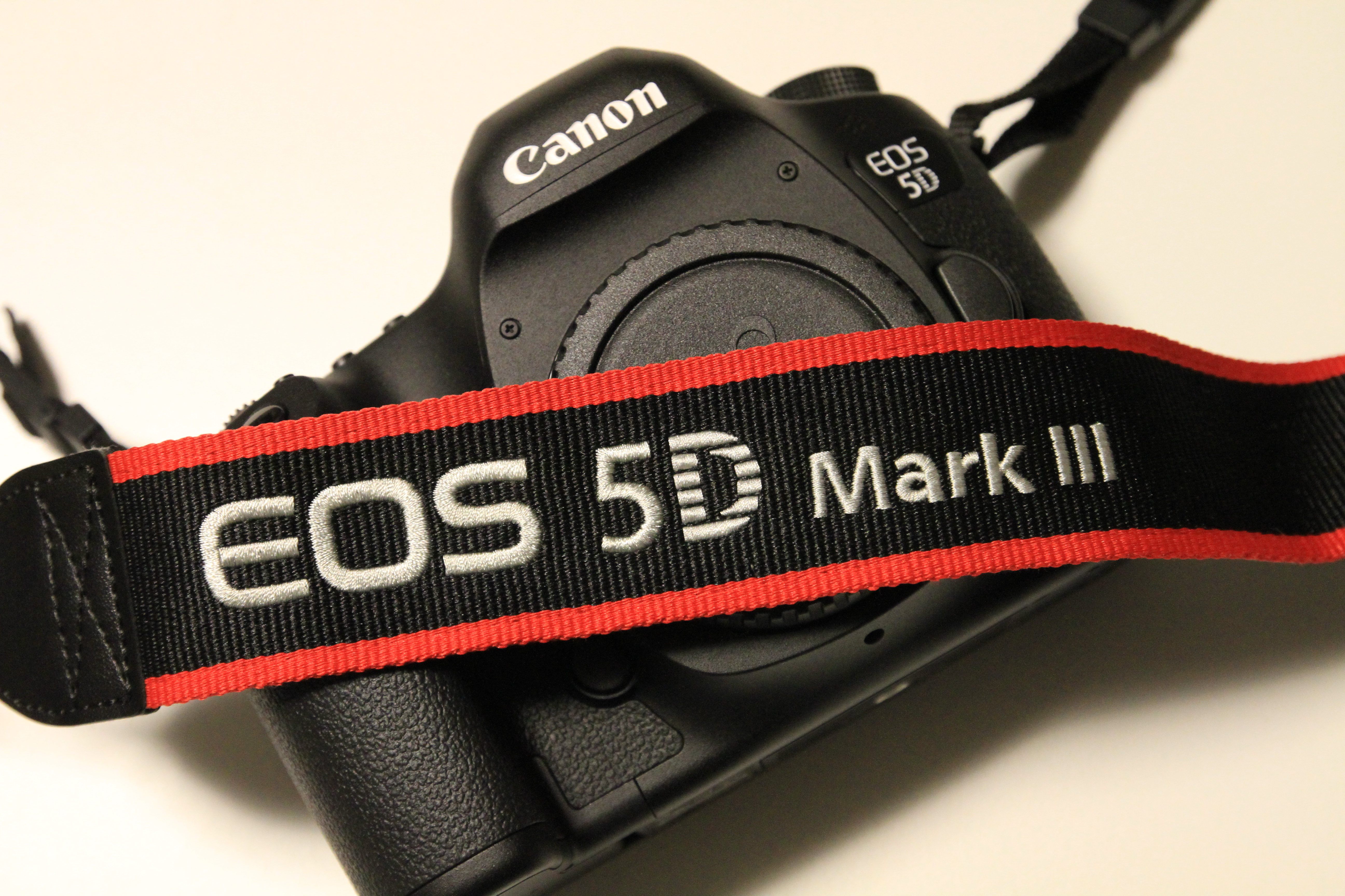 Canon EOS 5D Mark III, front view with strap